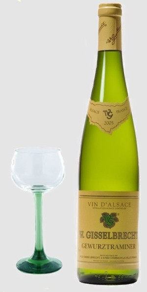 wine Alsace